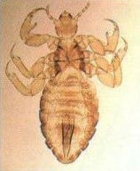 White head louse